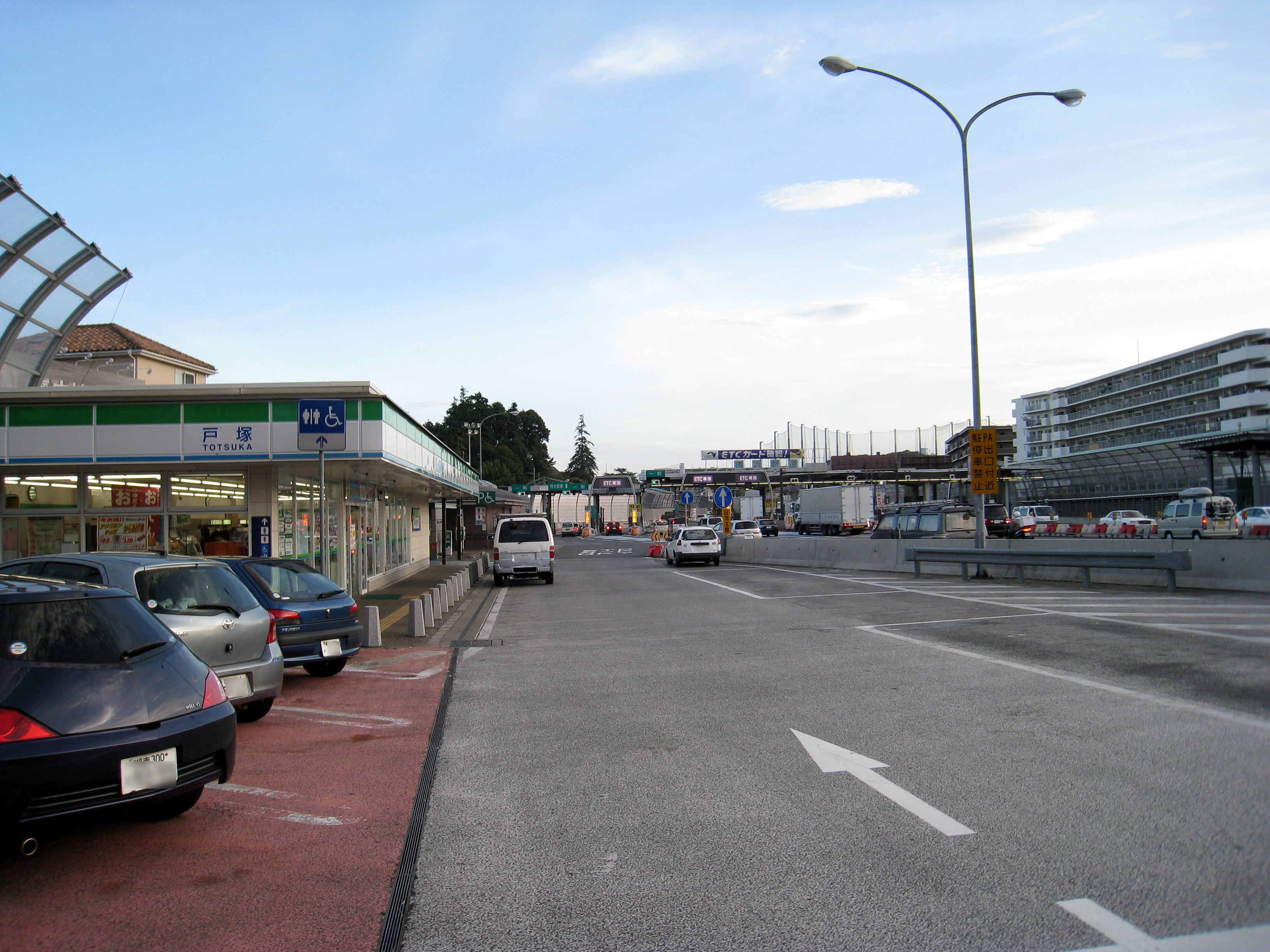 Yokohama-Shindo Totsuka parkingarea. Totsuka-ward, Yokohama-city, Japan